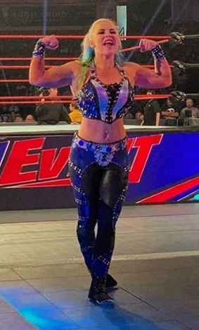 Wrestler